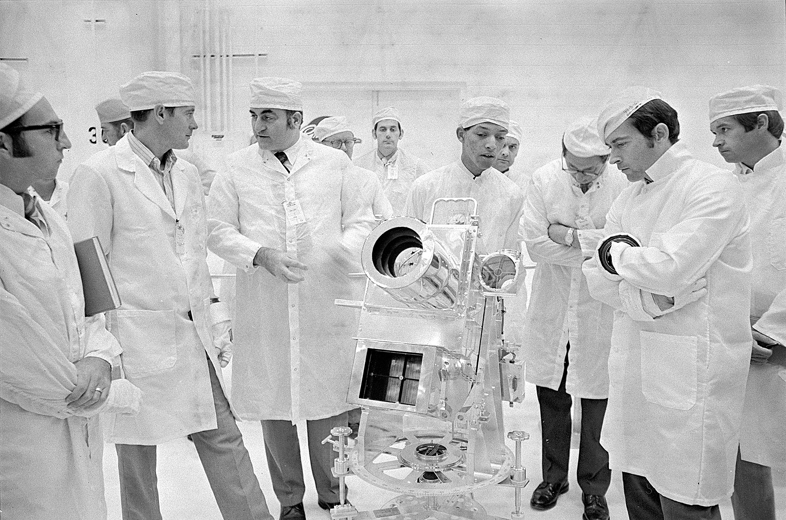 George Carruthers, center, principal investigator for the Lunar Surface Ultraviolet Camera, discusses the instrument with Apollo 16 Commander John Young, right. Carruthers is employed by the Naval Research Lab in Washington, D.C. From left are Lunar Module Pilot Charles Duke and Rocco Petrone, Apollo Program Director. This photograph was taken during an Apollo lunar surface experiments review in the Manned Spacecraft Operations Building at the Kennedy Space Center. Image # : 71P-0544